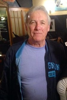 Deep Purple's bassist Nick Simper.